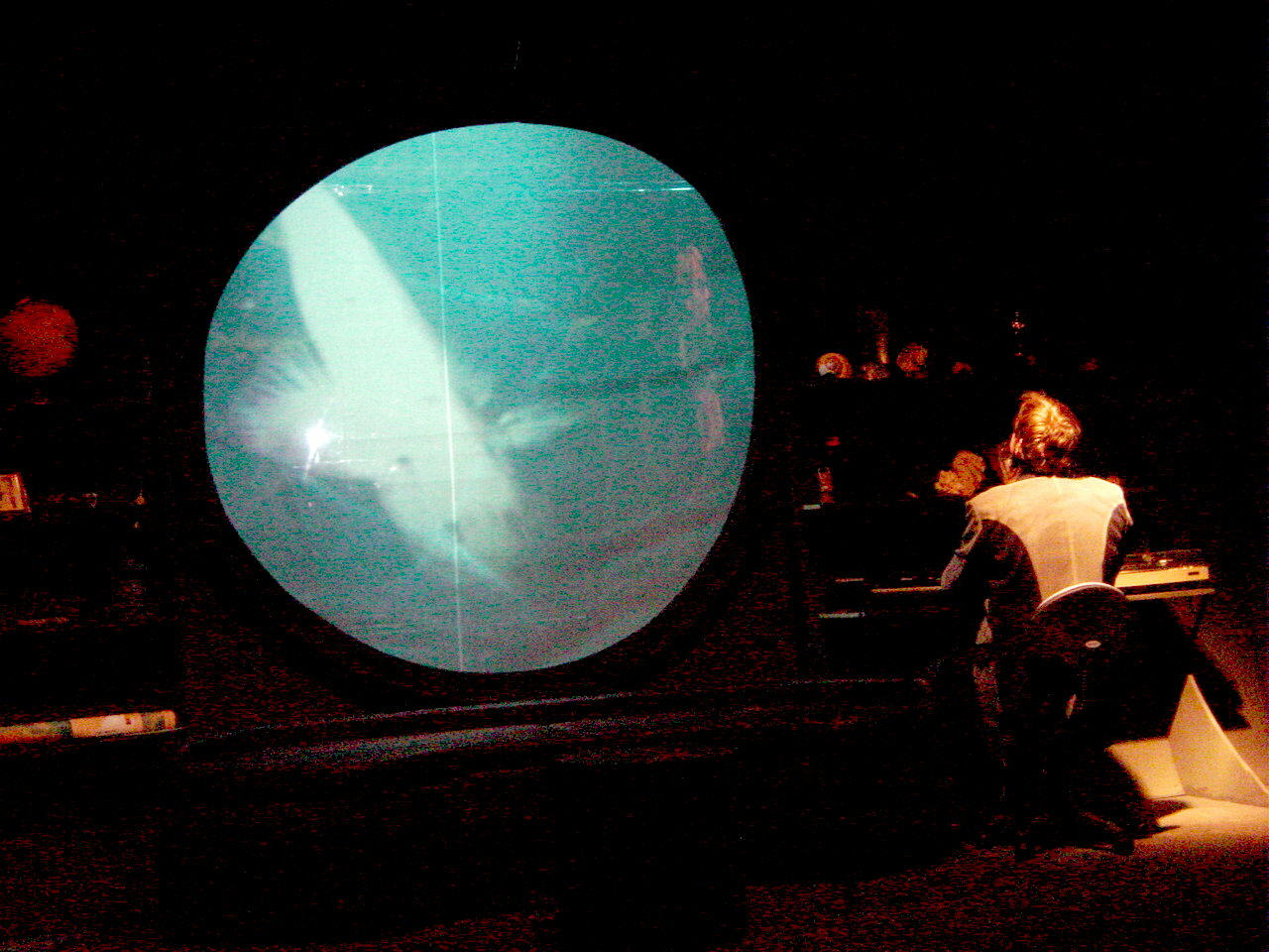 Twenty Thousand Leagues Under the Sea, play by Municipal and Regional Theatre of Komotini